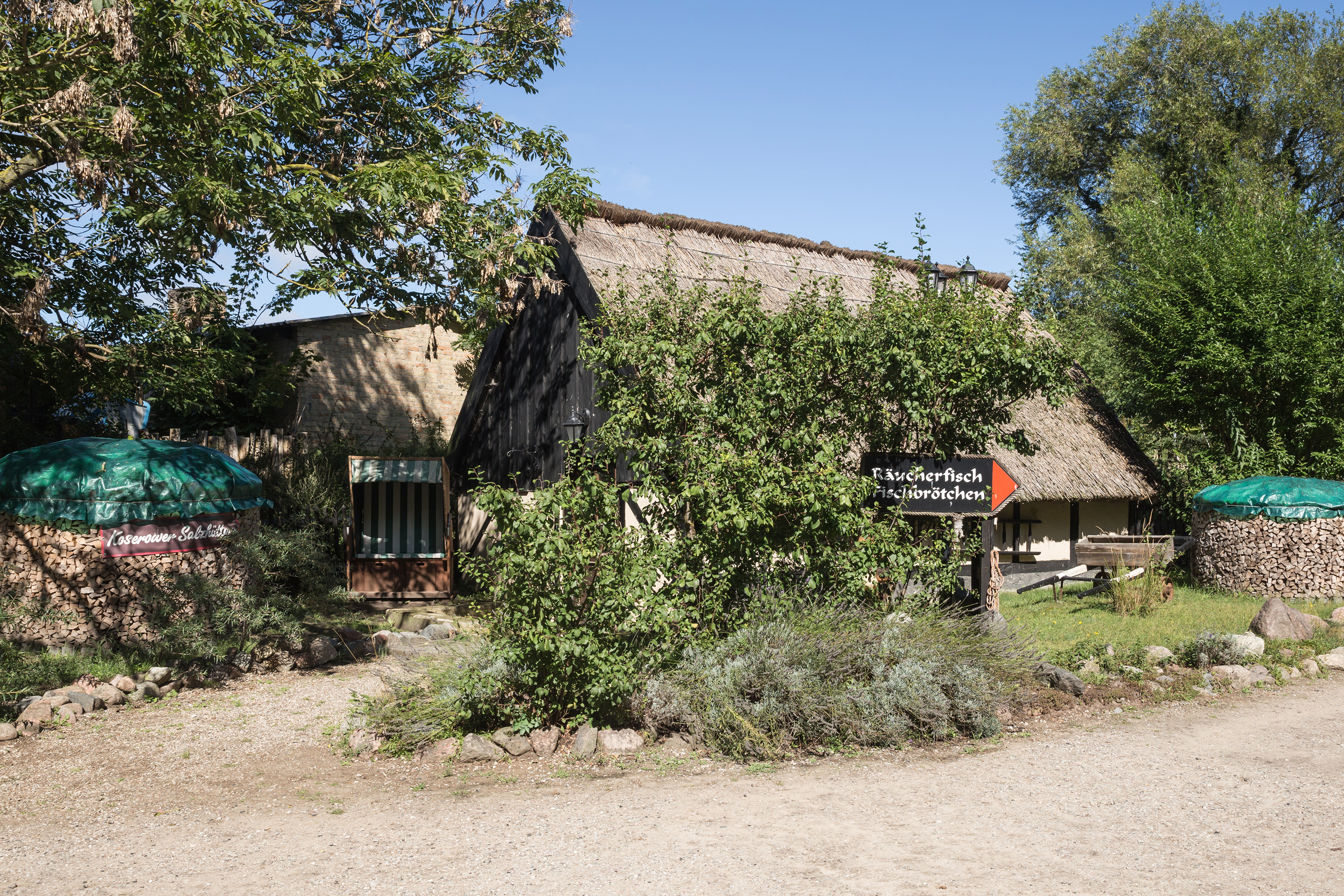 Koserow, salt cabin